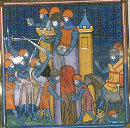 The siege of Le Puiset Castle. (British Library, Royal 16 G VI f. 291)